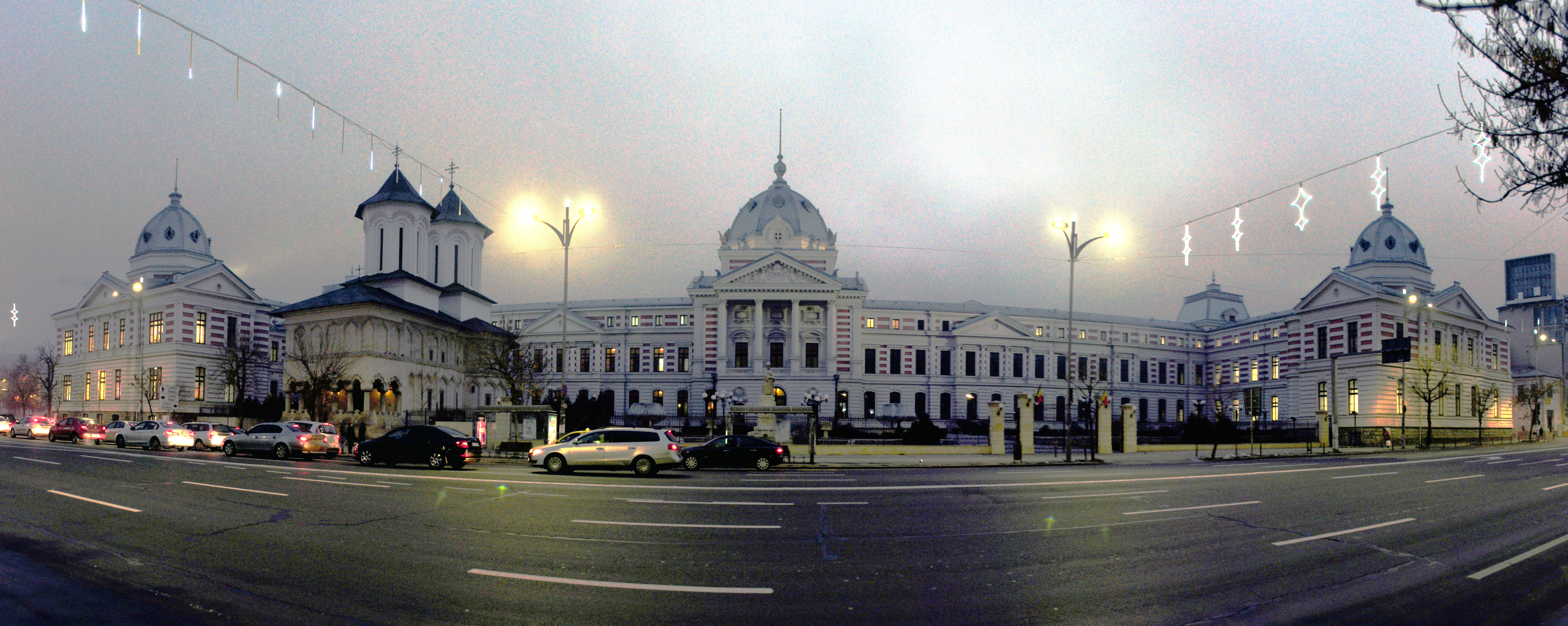 Colţea Hospital, Bucharest, Romania just before dawn. Panoramic view, equalized. Colţea Church monument istoric ID: B-II-m-A-18220.01 Colţea Hospital monument istoric ID: B-II-m-A-18220.02 This image was created with Hugin